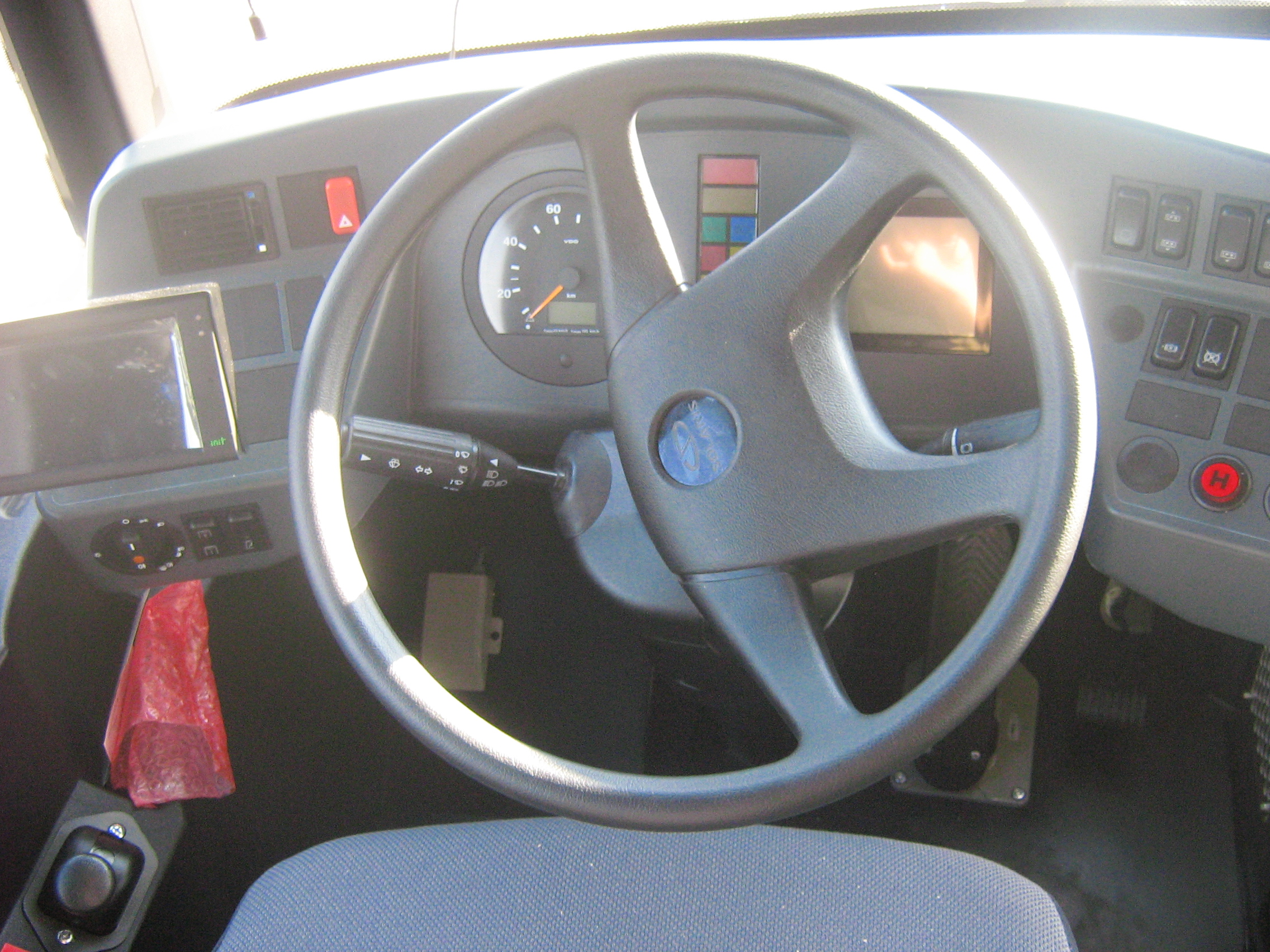 Solaris Urbino 12 LE bus in Świnoujście, Poland. Year built 2009. Bus in way to Norway.